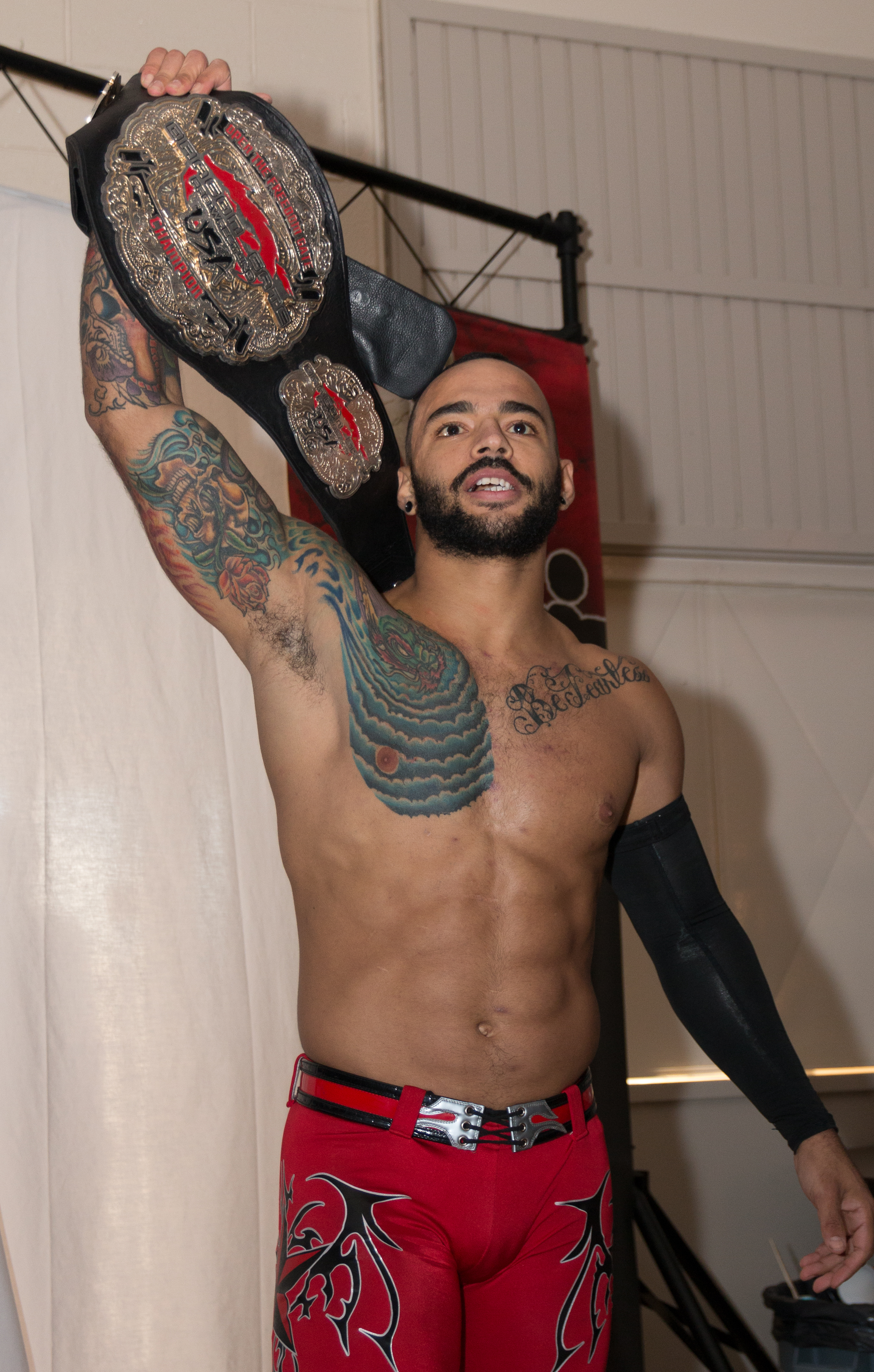 Independent wrestler Ricochet with Dragon Gate USA' s "Open the Freedom Gate" championship belt at Alpha 1's Final Act 5 Season Finale show